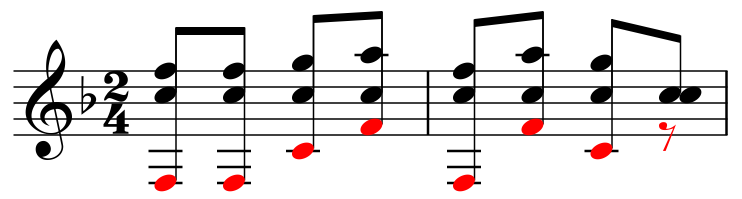 Difference tones between Yankee Doodle in F and a drone on C. F=8/5 (1/1), G=9/5 (9/8), A440=1/1 (5/4), C=6/5 (3/2). Or F=2, C=3, F'=4, C'=6, F =8, G =9, A =10.